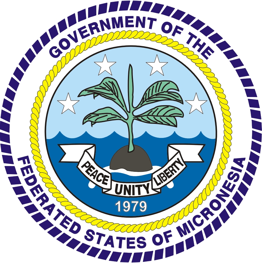 Coat of arms of Micronesia